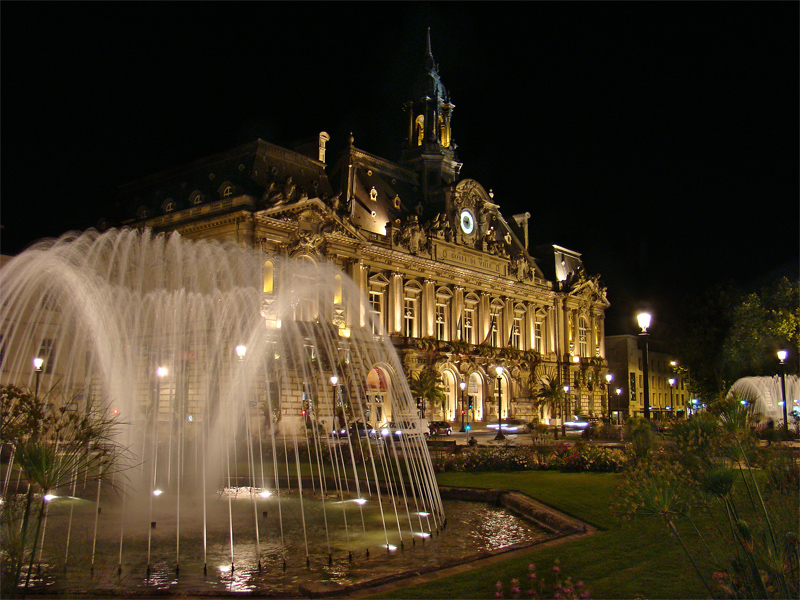 Town Hall, Tours, Indre-et-Loire, Centre, France.